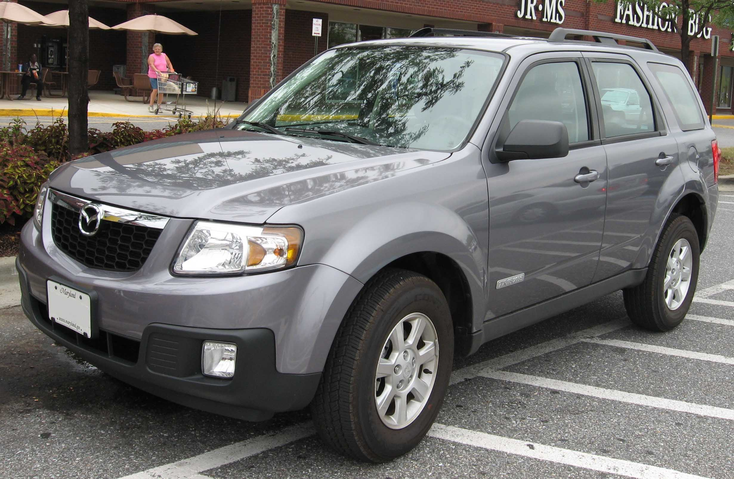 2008 Mazda Tribute photographed in Clinton, Maryland, USA.